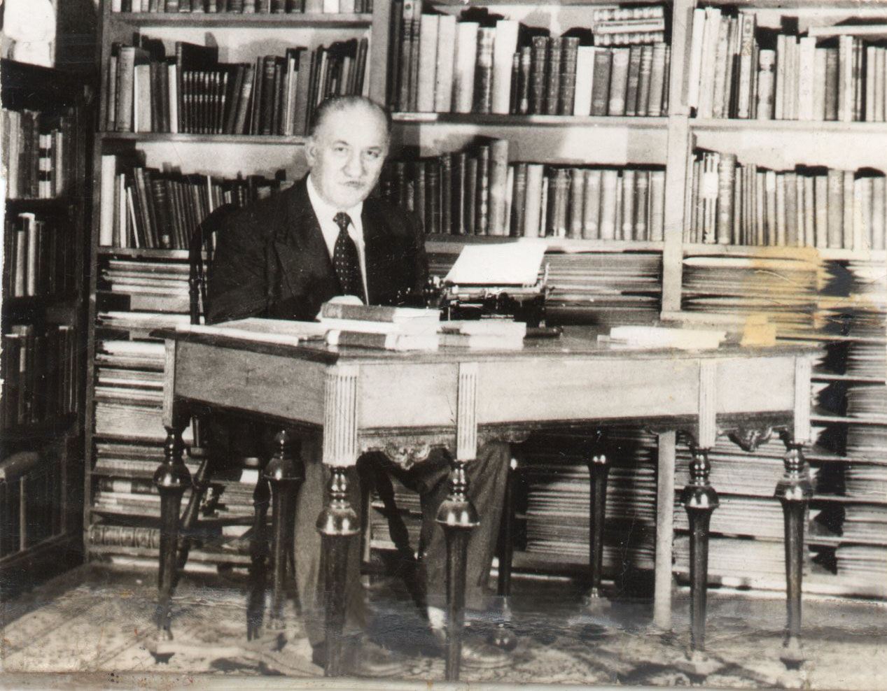 Jacob Eisenberg, pianist, author and piano teacher, sitting at his desk in his music library.